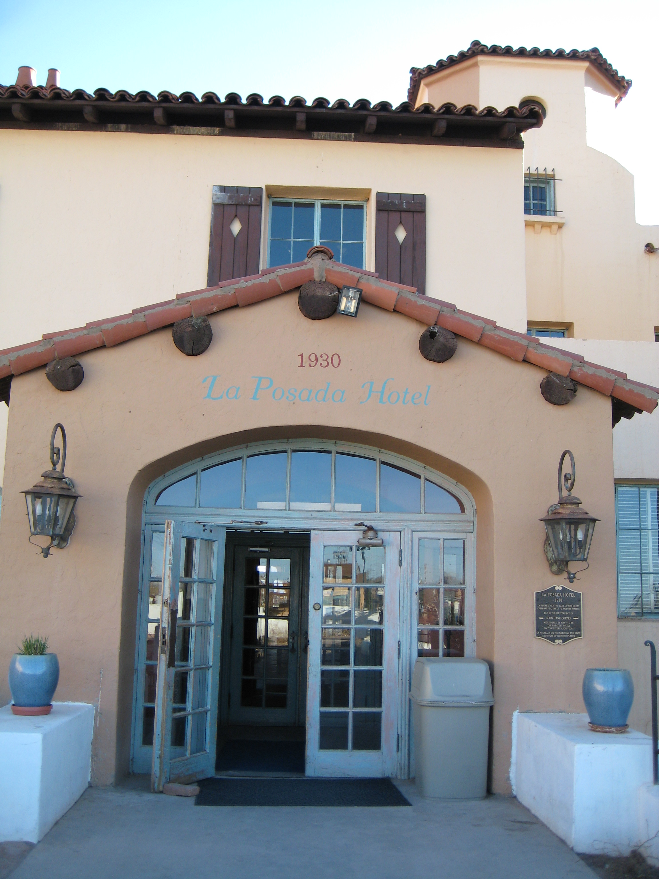 Winslow Amtrak station at Winslow, Arizona, United States. Part of the Harvey House hotel complex, designed by architect Mary Colter in 1929 in the Spanish Colonial Revival style. Today, it is part of the La Posada Historic District and listed on the National Register of Historic Places.